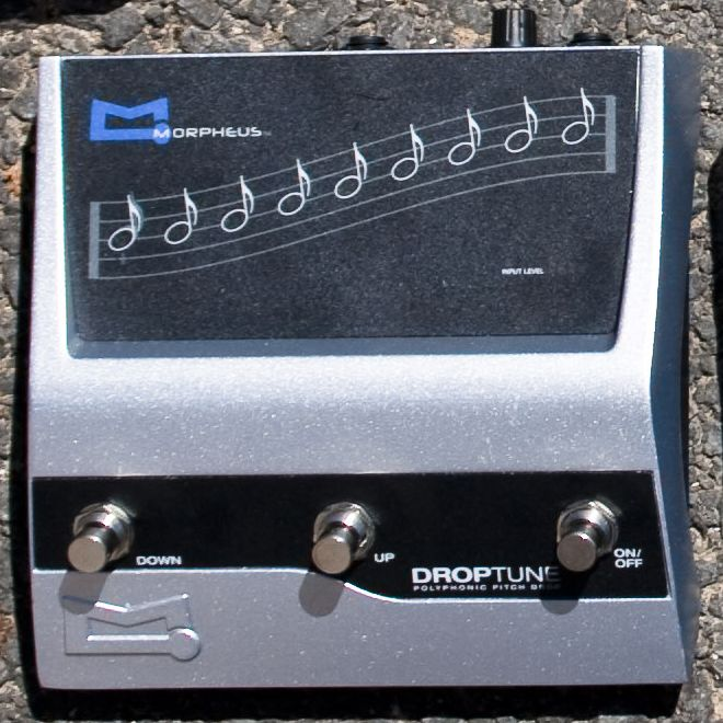 Morpheus DropTune DT1 Polyphonic Pitch Gear